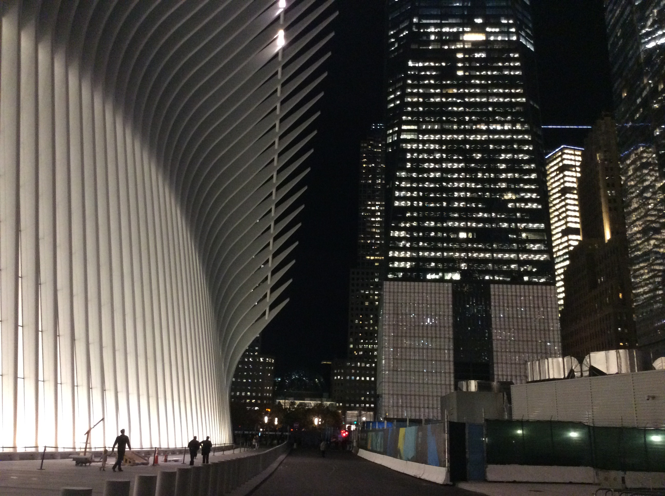 The World Trade Center site in New York City at night, November 2016